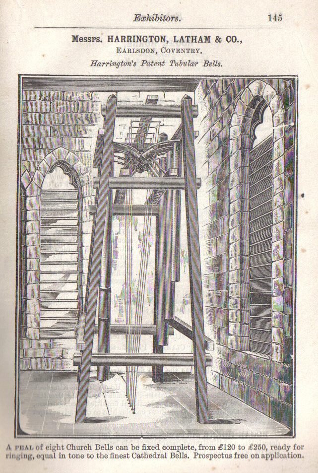 Harrington, Latham & Co, Earlsdon, Coventry. Harrington's Patent Tubular Bells. From the Illustrated Guide to the Church Congress 1897